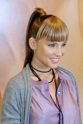 Cut out version of File:Elsa Pataky.jpg